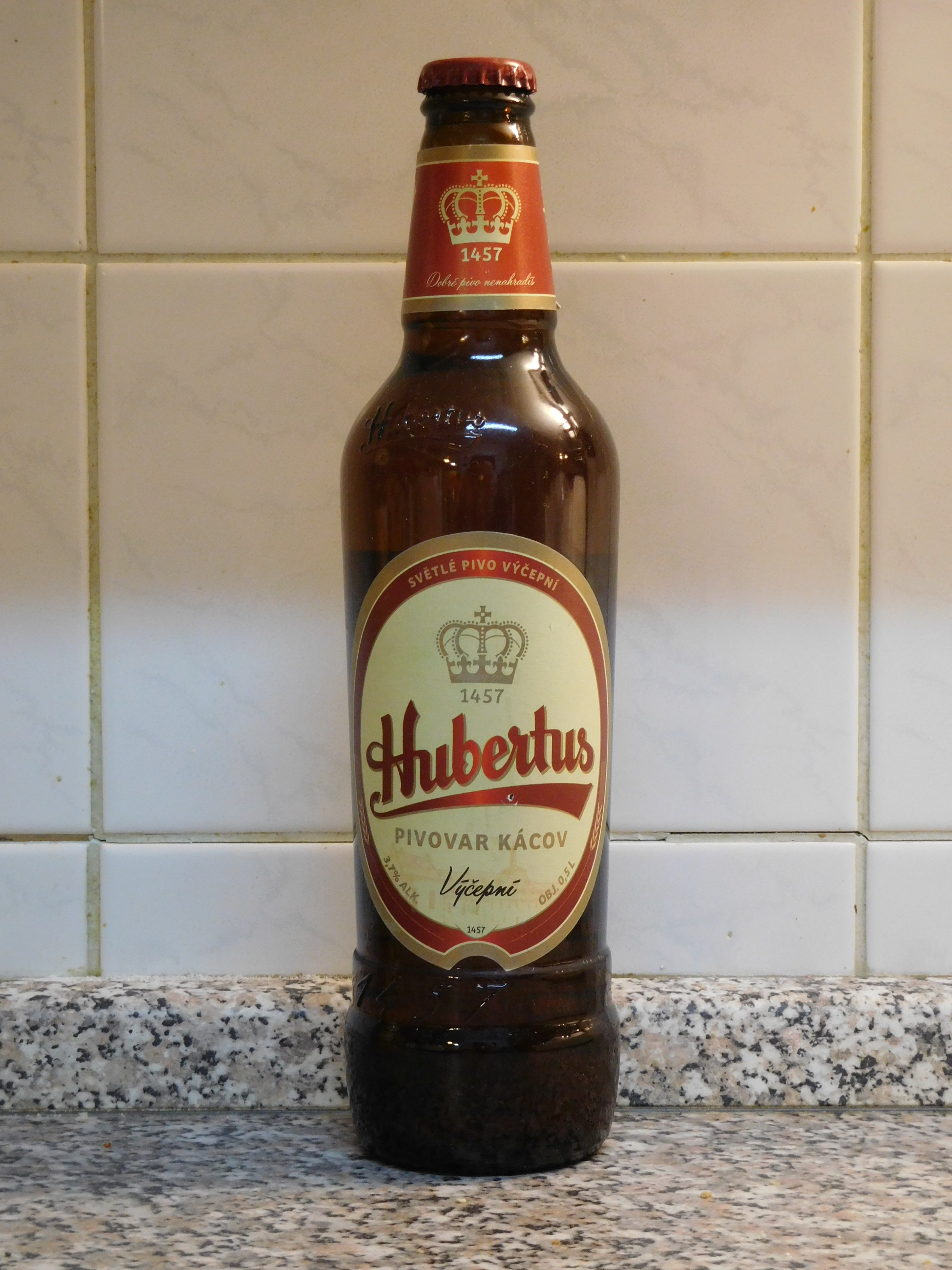 Hubertus beer from Kácov brewery